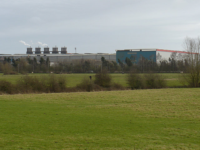 View of Llanwern Steelworks This picture was taken from the churchyard of St Mary's Church and shows the west end of Llanwern Steelworks ST3786 which is earmarked for a huge housing development.